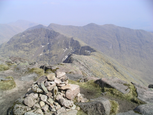 Ben Cruachan : Munro No 31. The summit cairn for Ben Cruachan (1126m) is in the immediate foreground, with the ridge around Coire Caorach leading off to the east with Drochaid Ghlas (1009m) at its end. Stob Diamh (998m) and Stob Garbh (980m) are on the ridge behind.